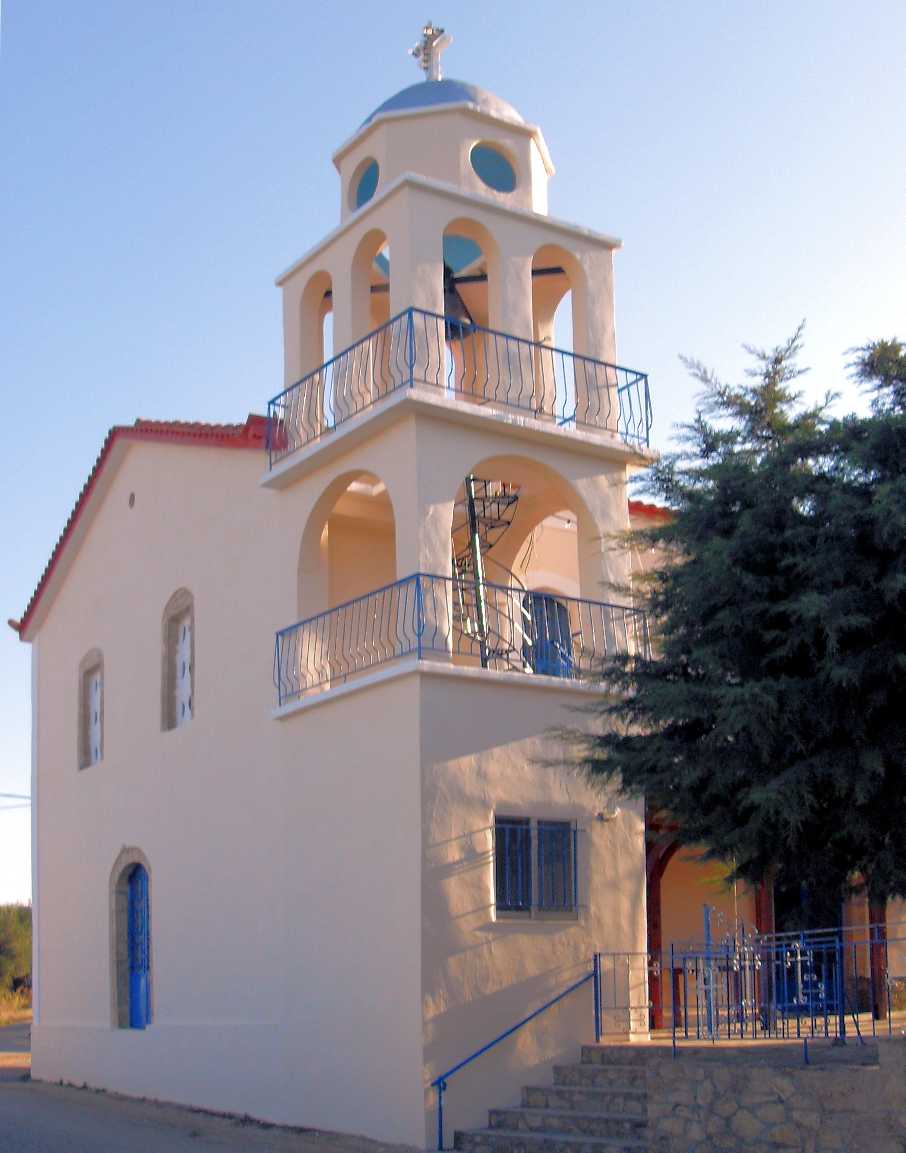 Church in Akritochori, municipality of Koroni, community of Pylos-Nestor